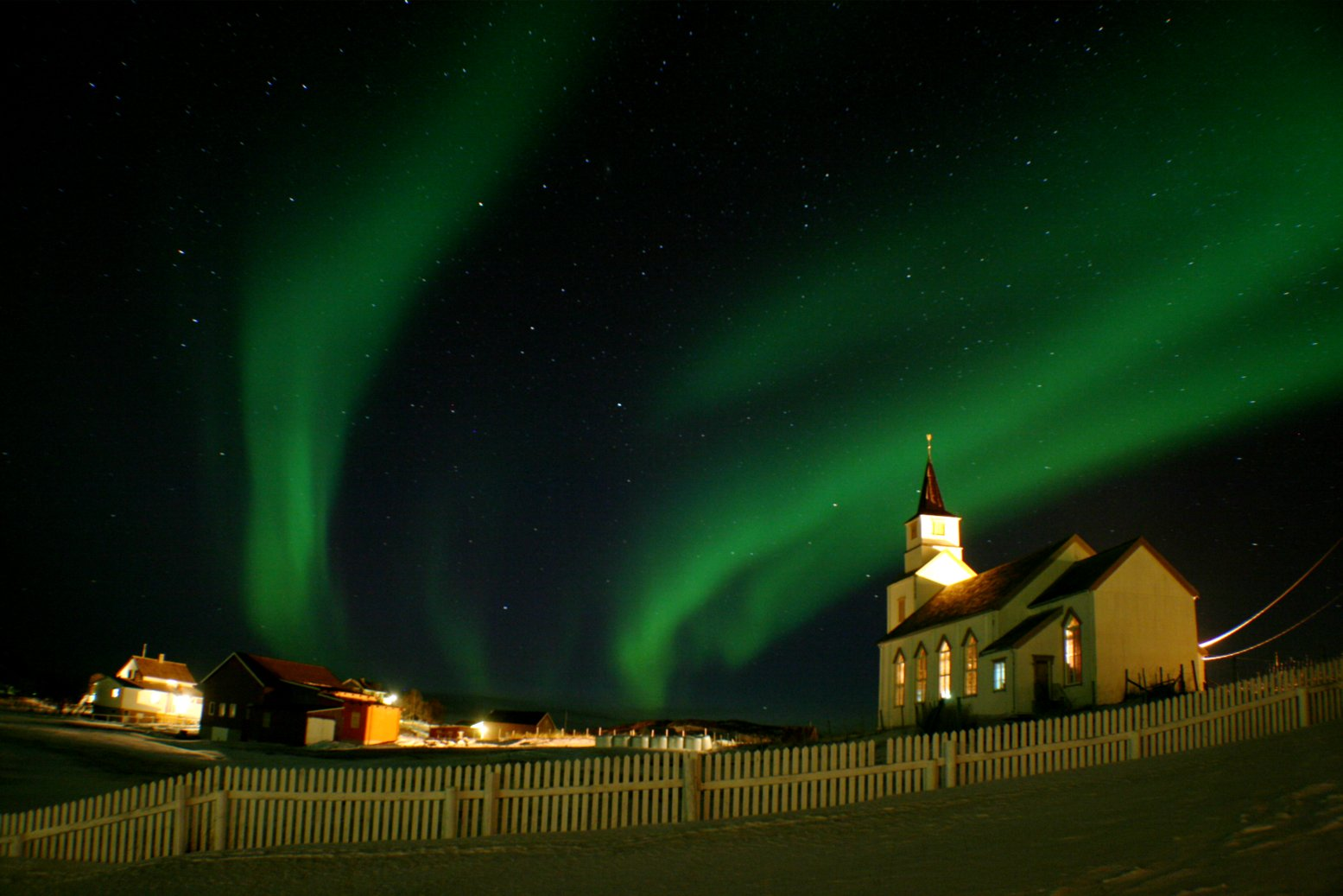 Northern Lights over Kvaløya, Norway, April 2008